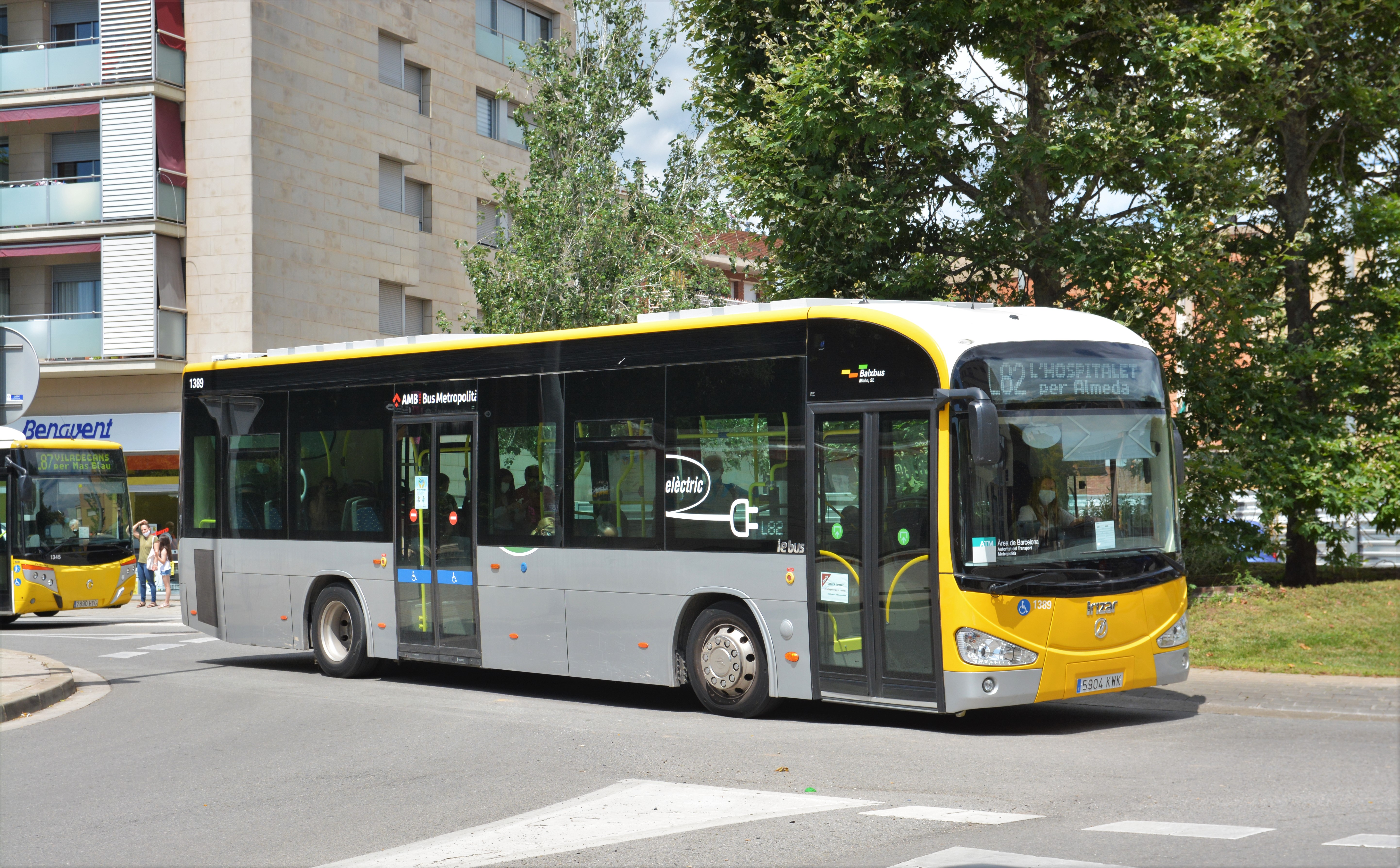 The electric bus Irizar iebus number 1389 of Mohn S.L. in Viladecans.